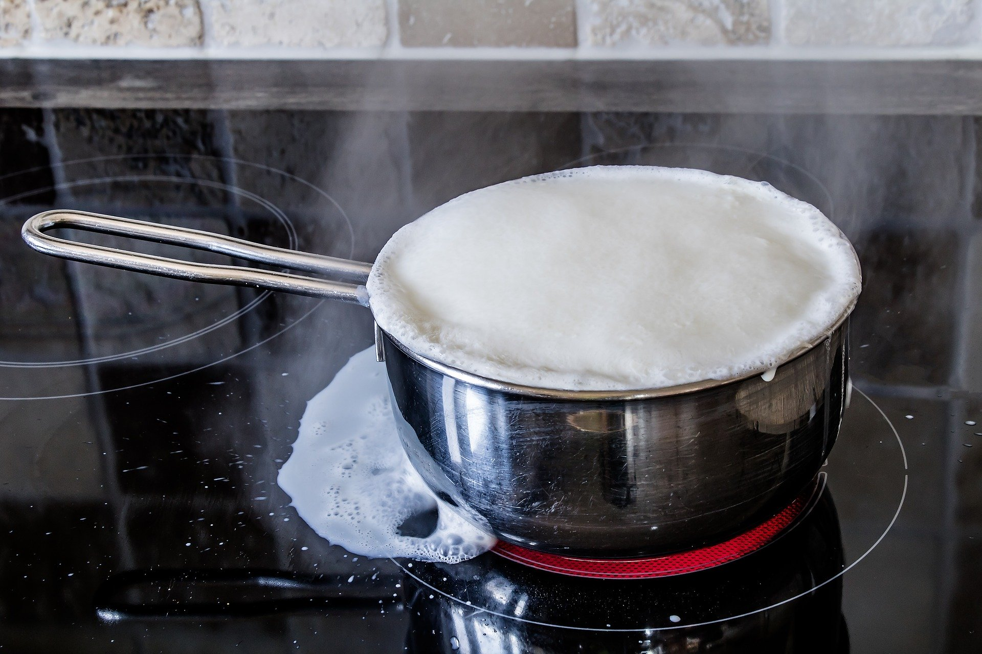 Boiling over of milk